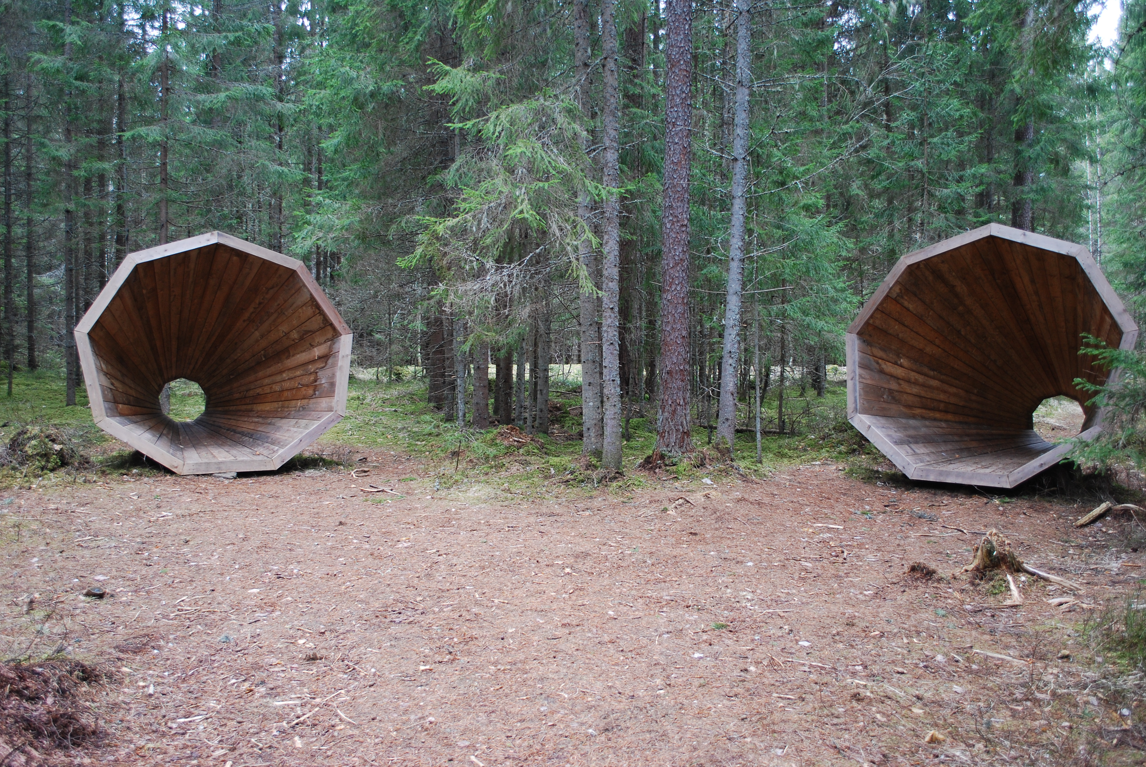 A forest library in Estonia for listening to the sounds of nature